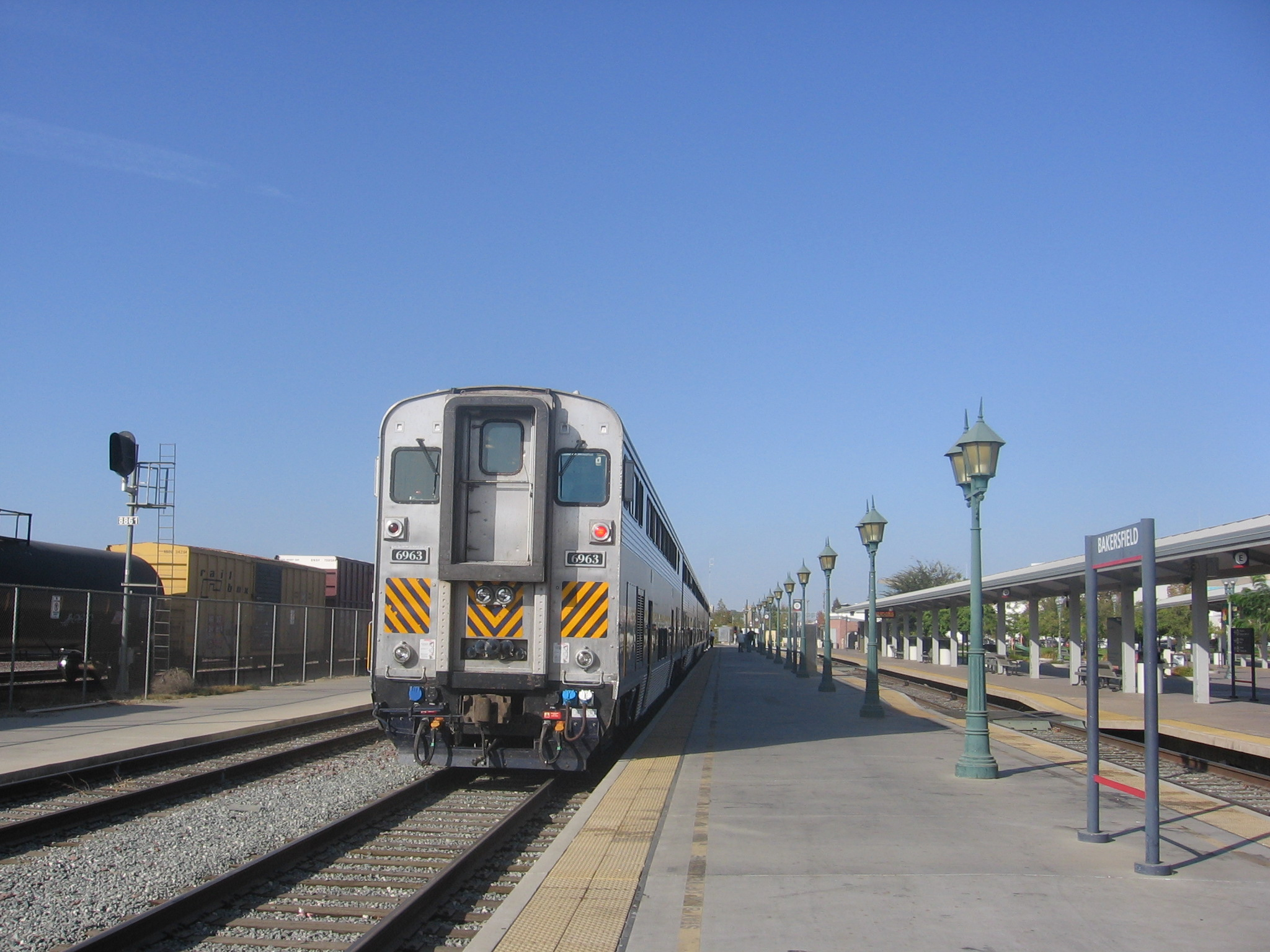 The Bakersfield (Amtrak station) in Bakersfield, California, USA.